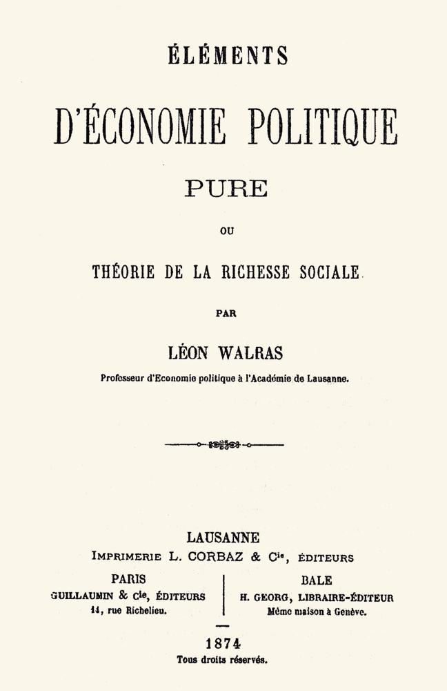 Scanned by CJC from facsimile reedition